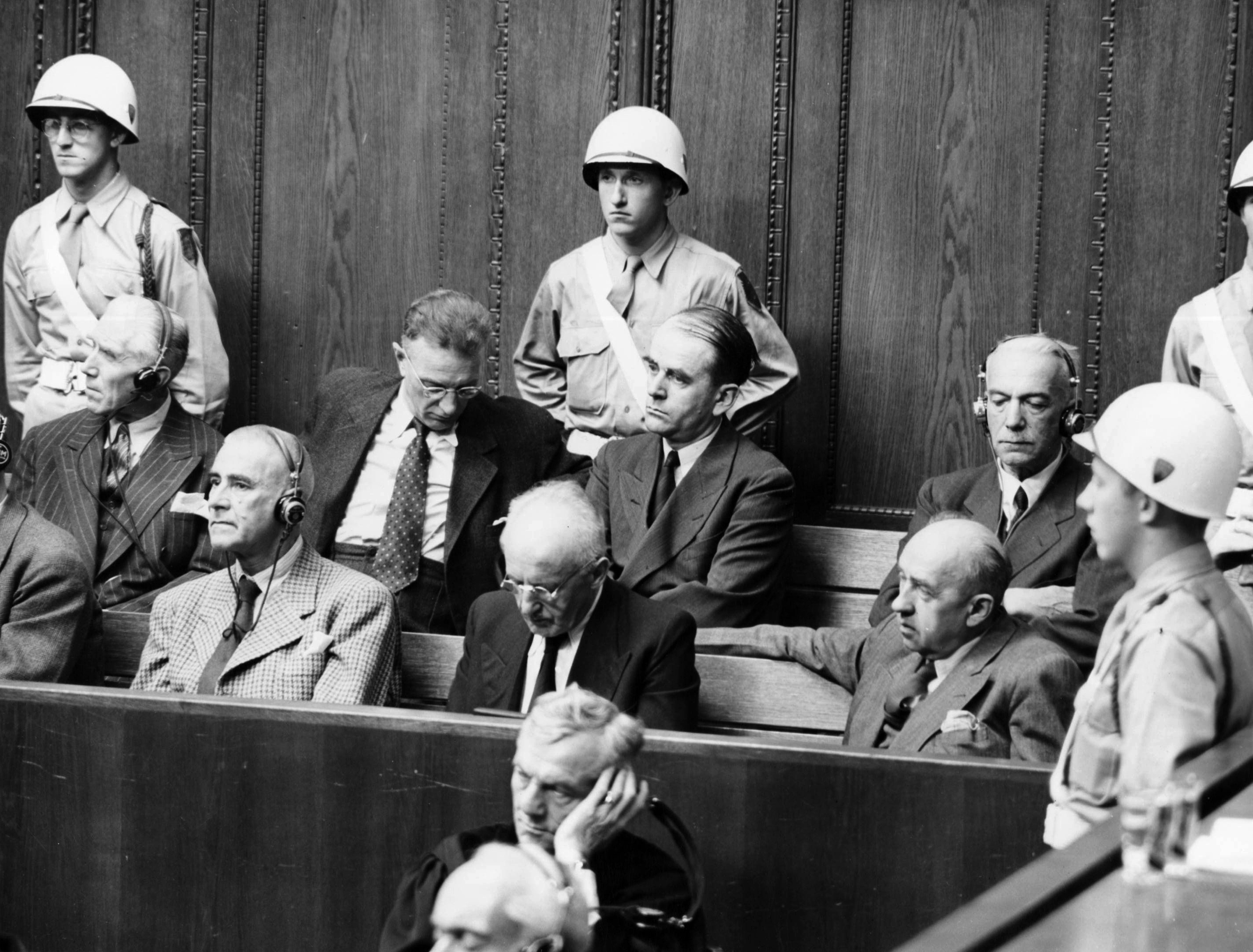 The accused on their bench (front left to right: Wilhelm Frick, Julius Streicher, Walther Funk; back left to right: Franz v. Papen, Arthur Seyß-Inquart, Albert Speer, Konstantin v. Neurath)